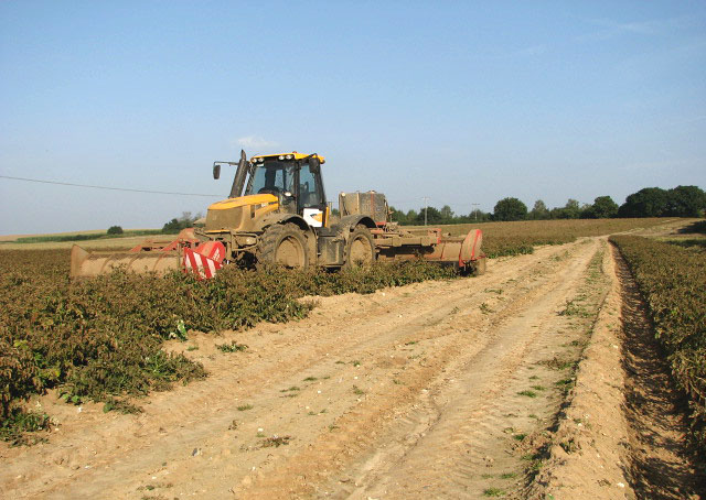 A flail vine shredder. On maturity of the tubers the potato vines are killed in order to terminate growth and hence control tuber size, and to set skin, which reduces skinning and bruising during harvest, and shrinkage in storage. The most common method of vine killing is chemical desiccation. Sometimes a flail vine shredder is used, an implement consisting of varying knife lengths to accommodate the contours of the hill and furrow, producing a very rapid vine kill by mechanically removing all but about 15 centimetres of the vines – see File:Preparing for the harvest - .uk - 982621.jpg – which are then removed by chemical desiccation.